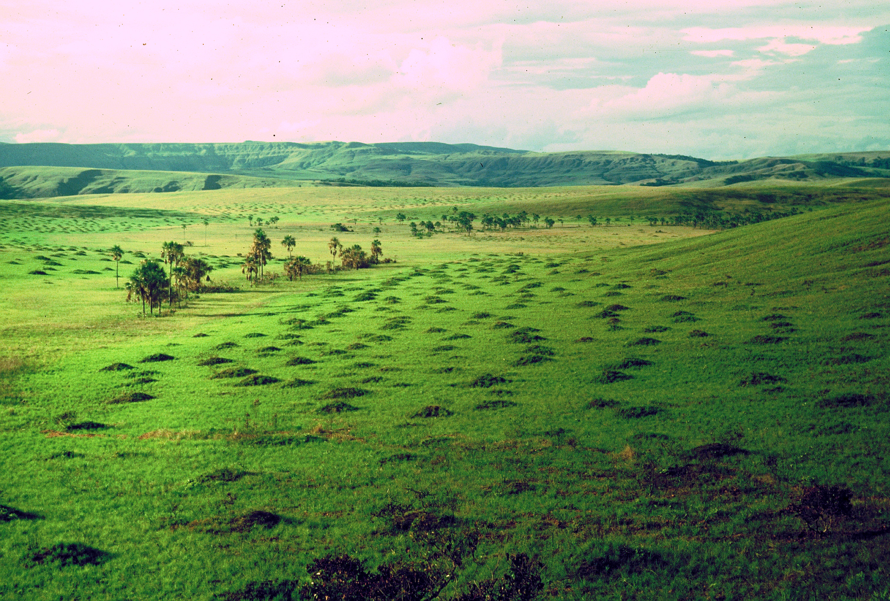 Savanna with termite mounds (mostly abandoned) in the Gran Sabana, Bolívar state, Venezuela.